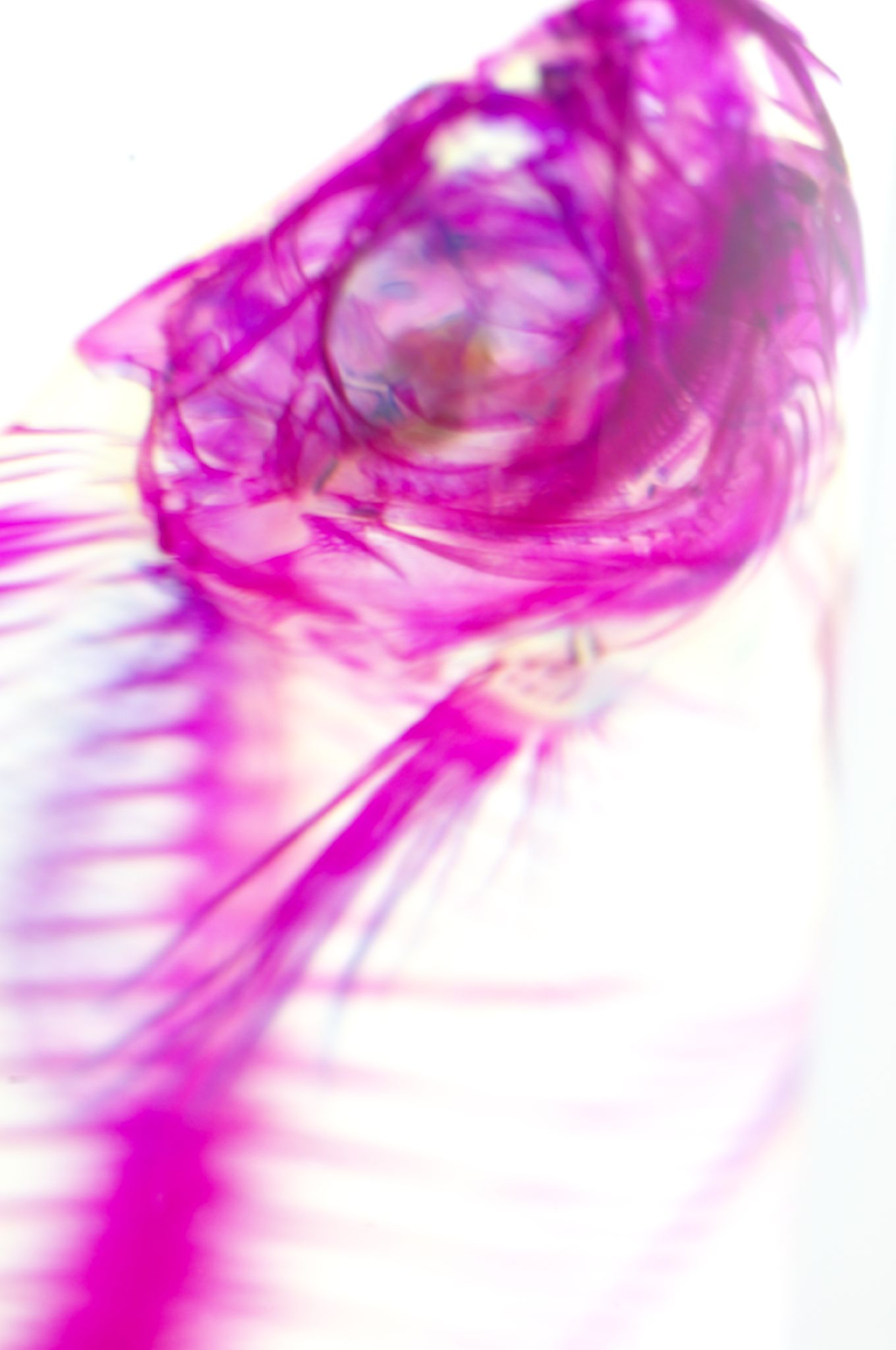 Transparent frame specimen (Trachurus japonicus)